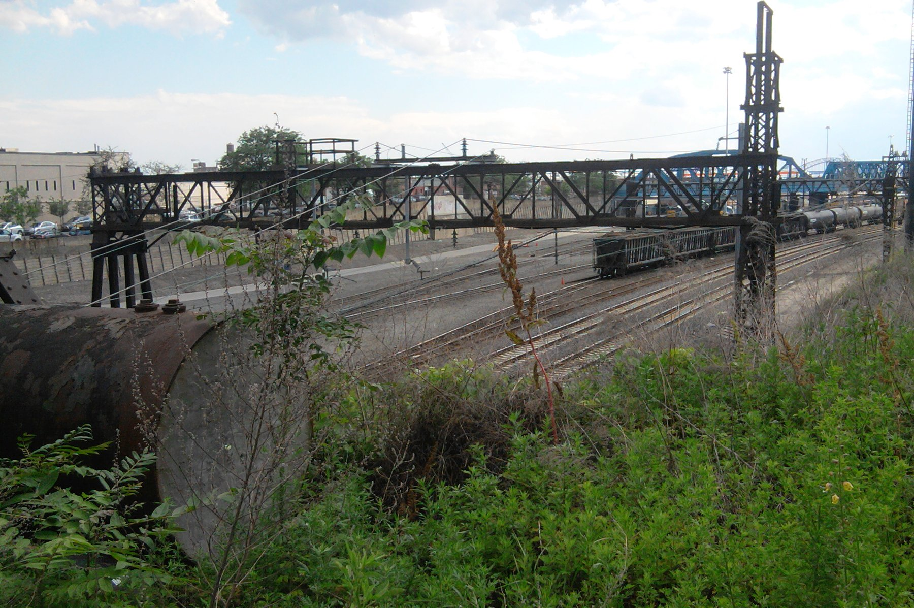 Looking south from Longwood Avenue overpass at northern part of Oak Point Yard on a mostly sunny afternoon.